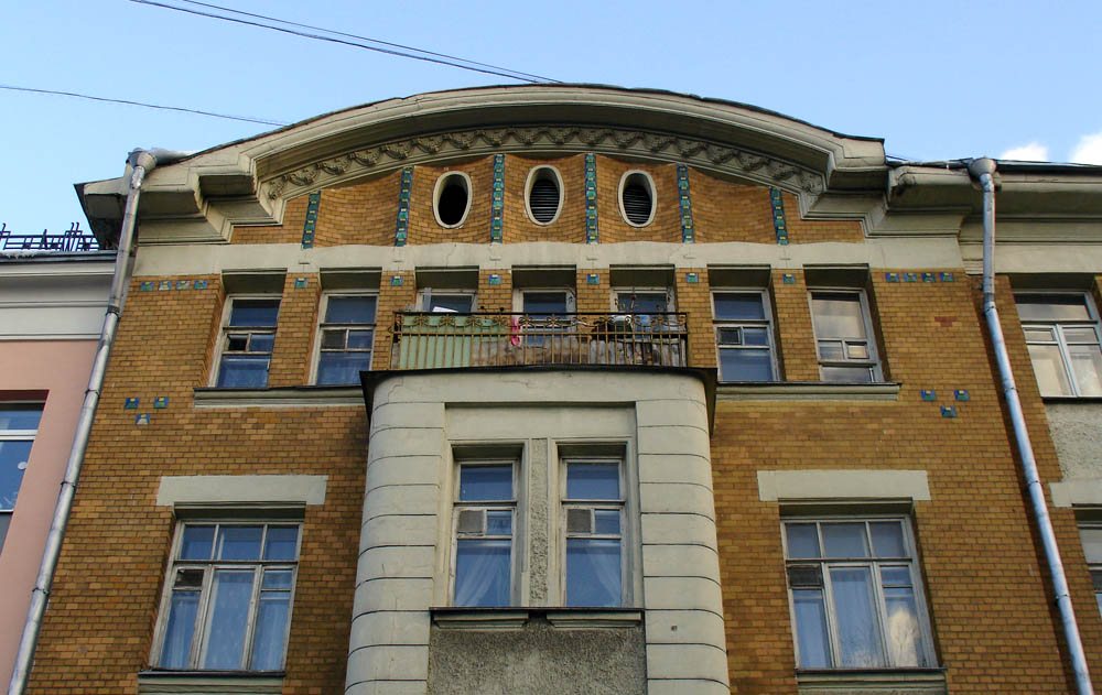 22 Meshchanskaya Street, Moscow